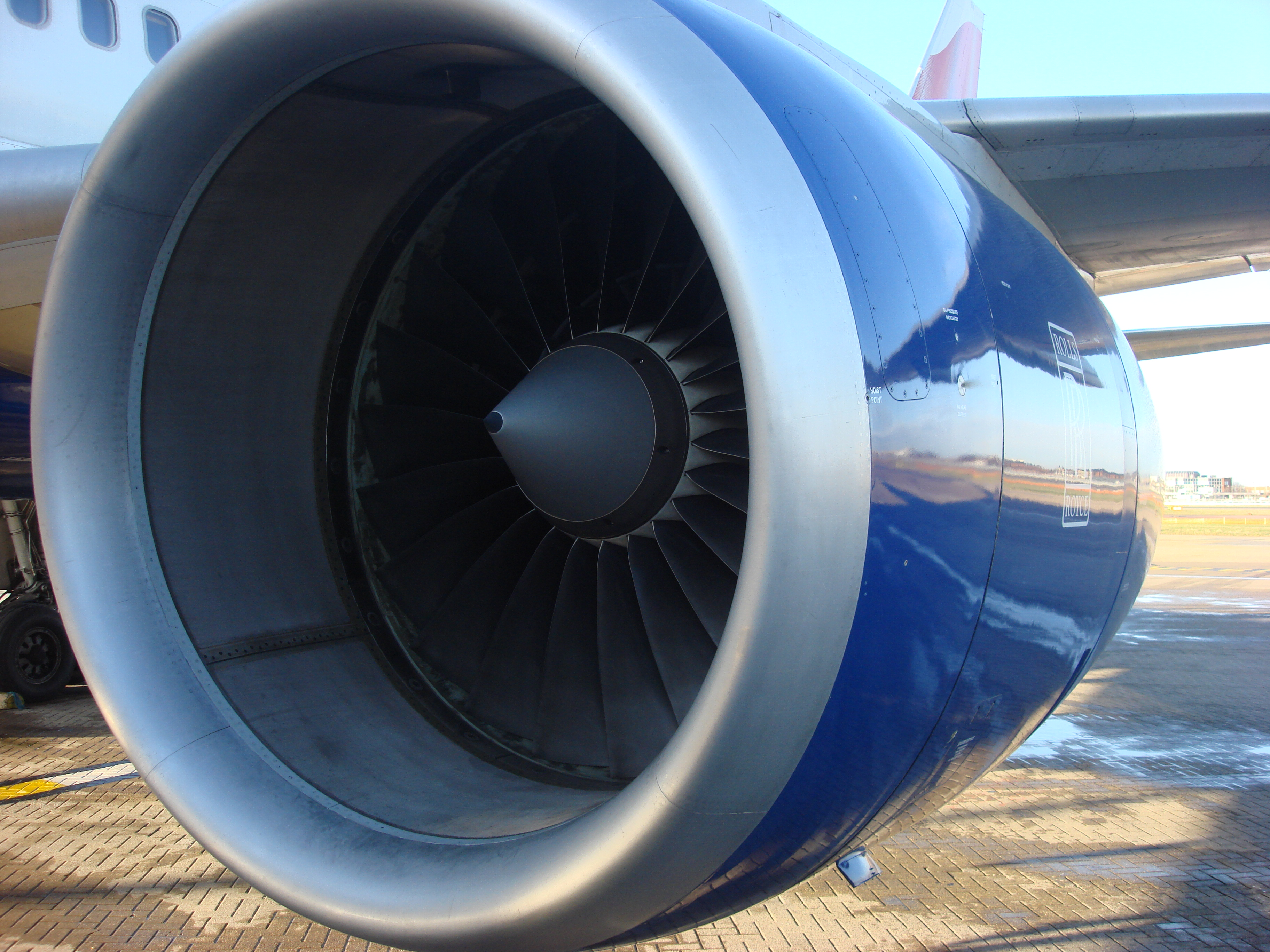 Rolls-Royce Trent 800 on a British Airways Boeing 777 at London Heathrow airport